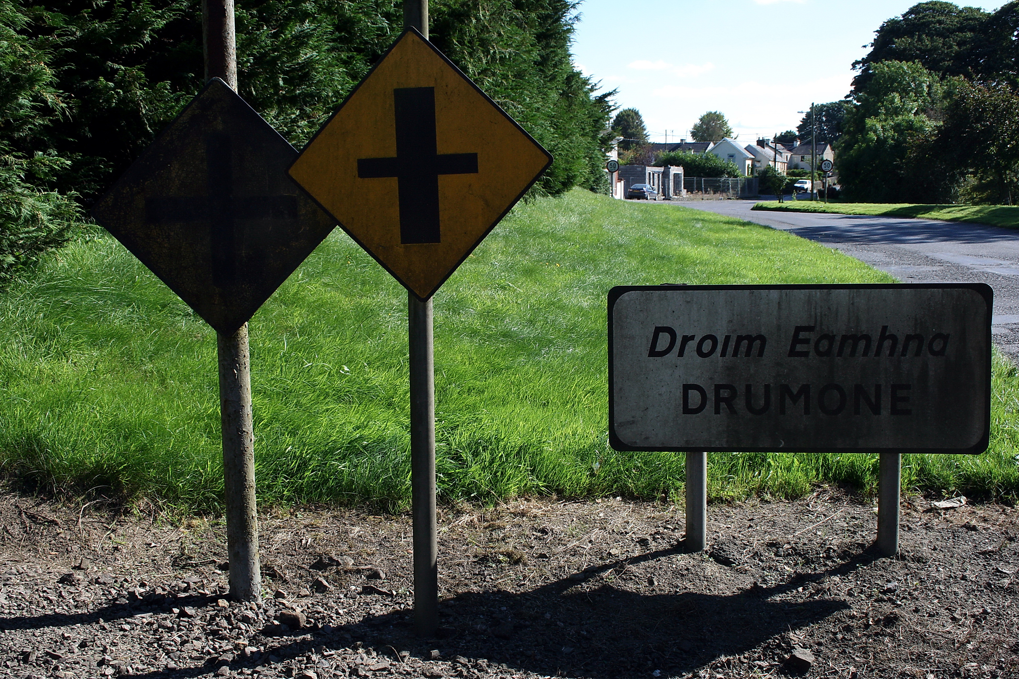 Spookytown ahead